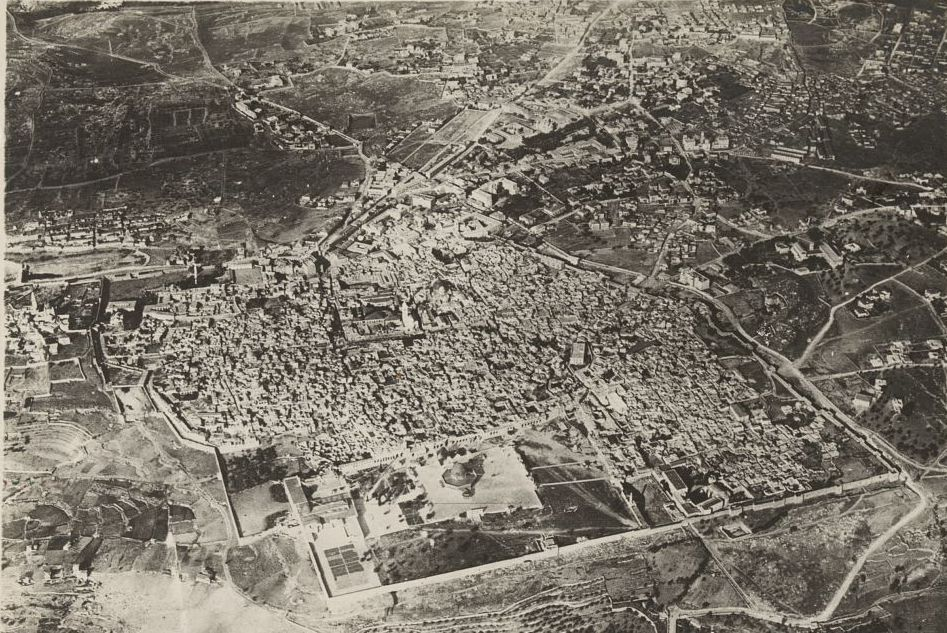 Photo by German aeroplane flying over Olivet, 1917.